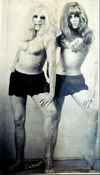 Mimi y Norma Pons- Actrices y vedettes